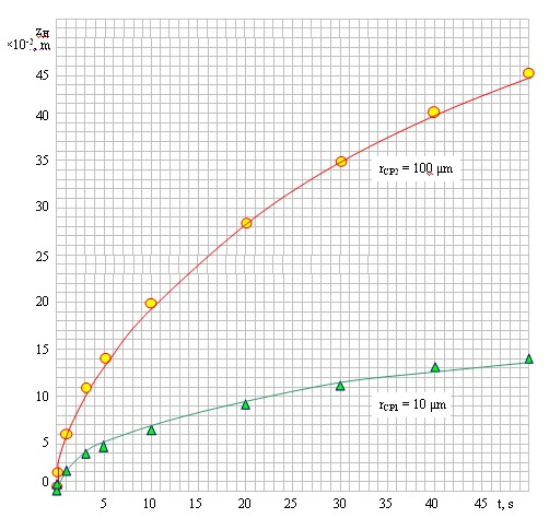 Molecular power 23. Distances traveled by a liquid in cylindrical horizontal capillaries vs time